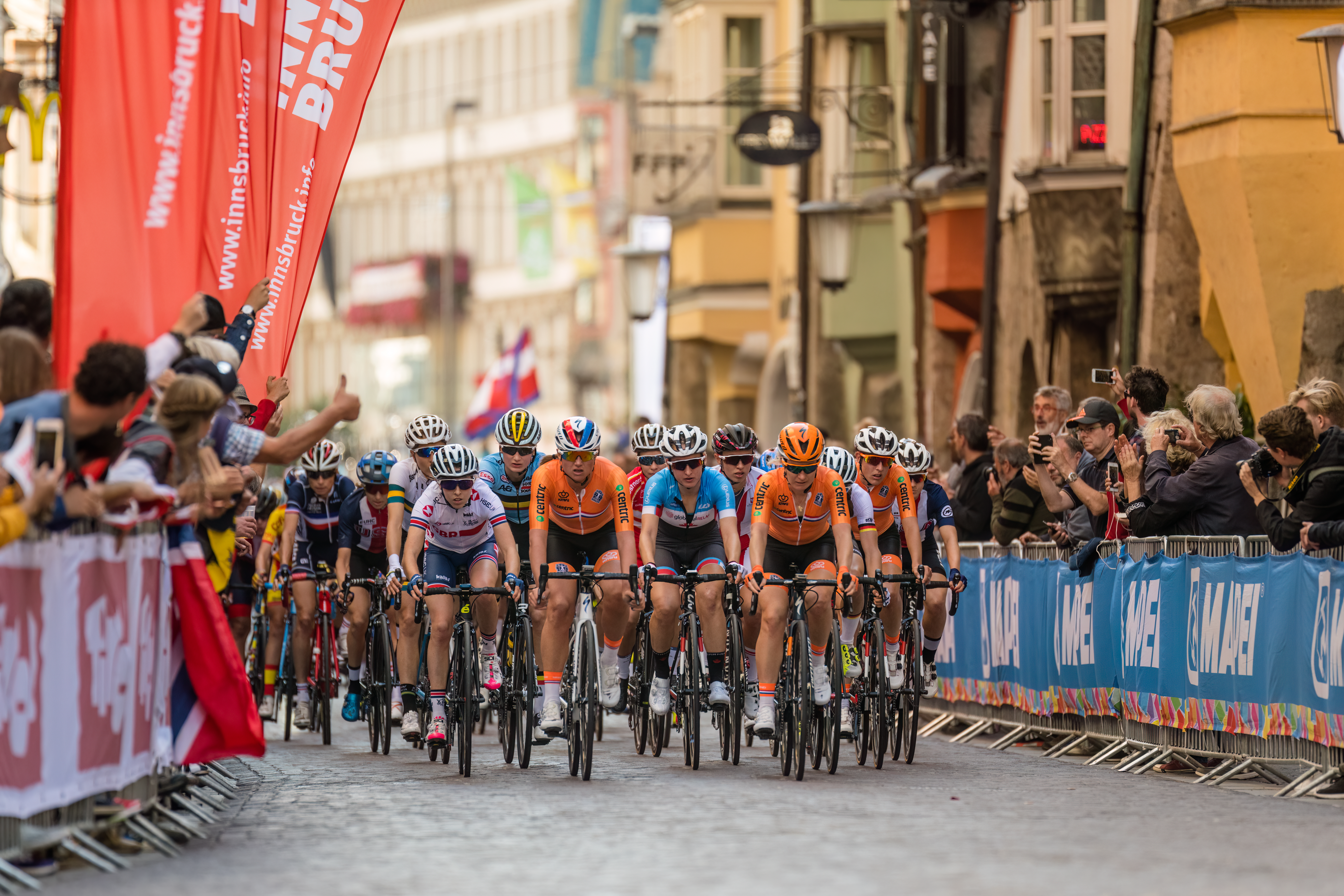 2018 UCI Road World Championships Innsbruck/Tirol Women Elite Road Race. Picture shows: Peloton in the Innsbruck City